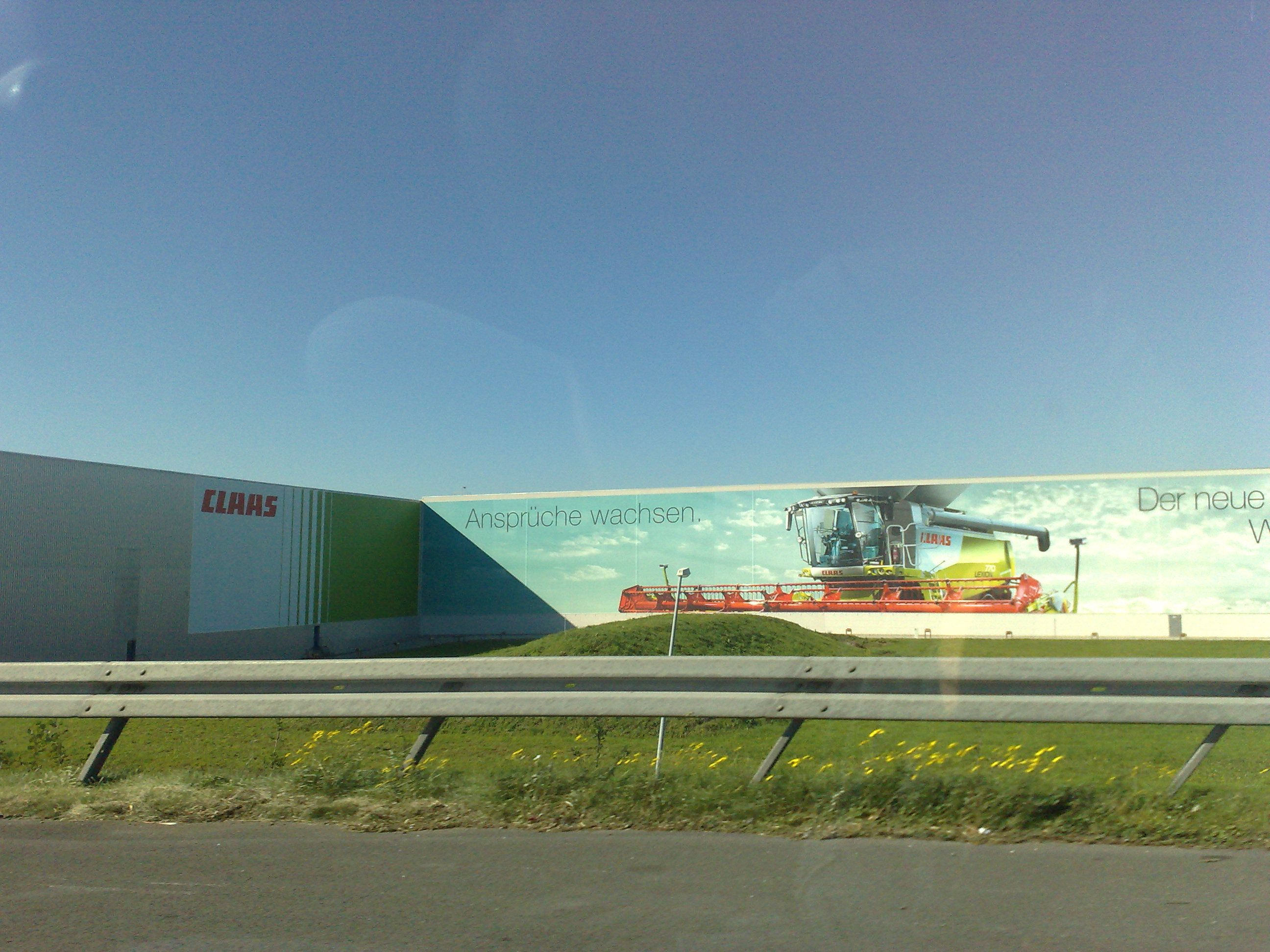 building of Claas